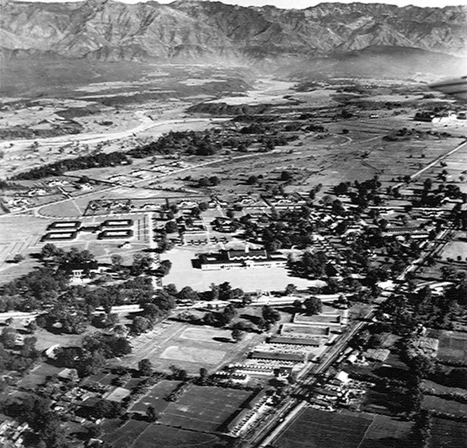 The Academy, which was opened by the Commander-in-Chief, General Sir Philip Chetwode on 10 December 1932, was established for the training of Indian gentlemen as officers independently of the Royal Military College Sandhurst.